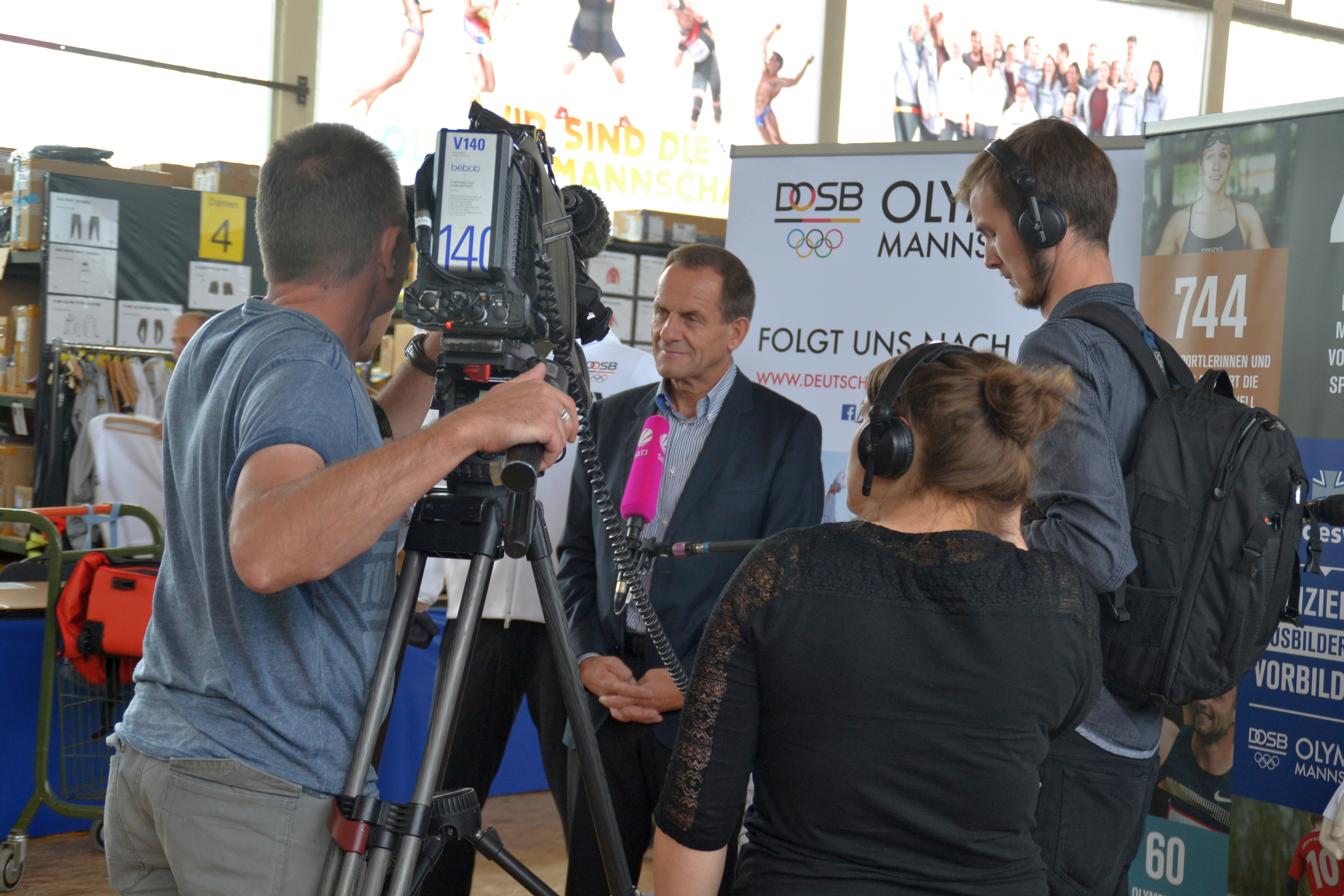 Media day of the clothing of the German Olympic team for Rio 2016 in the Emmich-Cambrai-Kaserne in Hanover. Pictured persons see Categories.